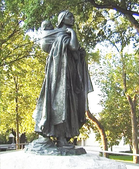 Statue of Sacagawea — by sculptor Leonard Crunelle (1872-1944) . Located in front of the North Dakota State Capitol, in Bismarck, North Dakota.